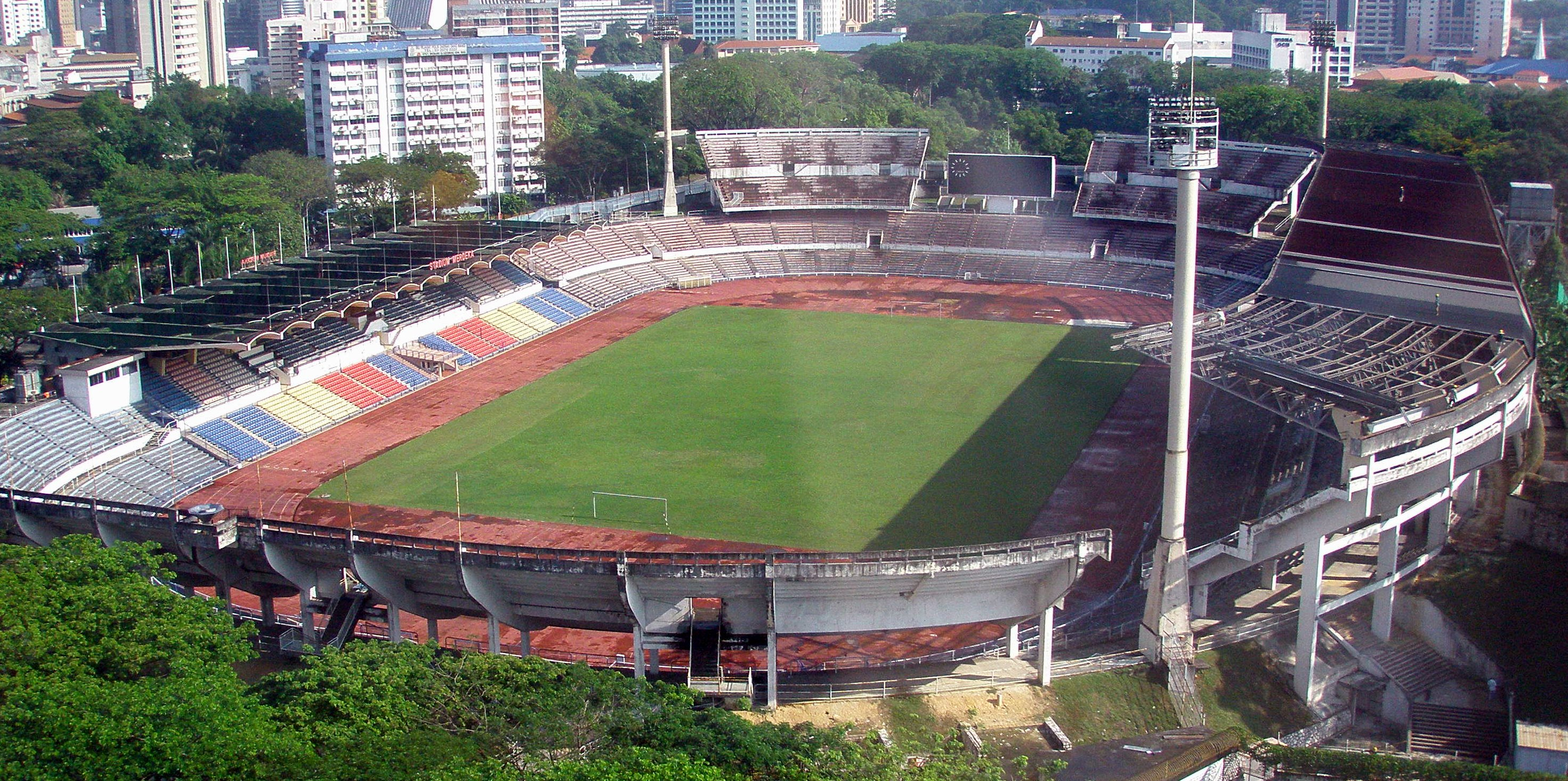 A view of the completed Stadium Merdeka in Kuala Lumpur, Malaysia. This photograph was taken in February 2007 by SK Tan.